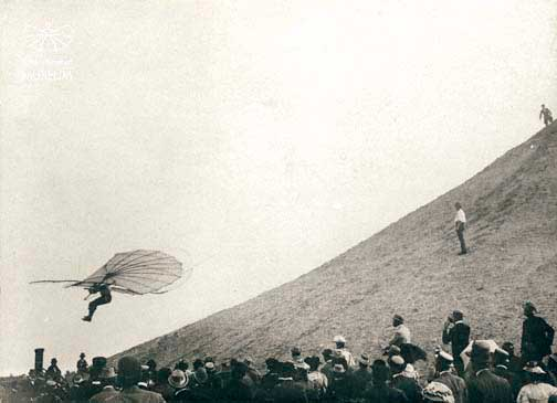 Otto Lilienthal "Mount flight", Lichterfelde (near Berlin)